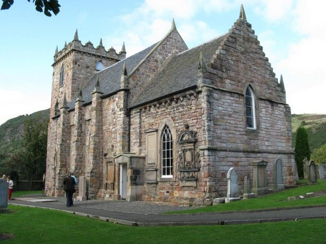 Duddingston Kirk A small 12C church on the outskirts of Edinburgh, said to be the oldest church still in use in Scotland.